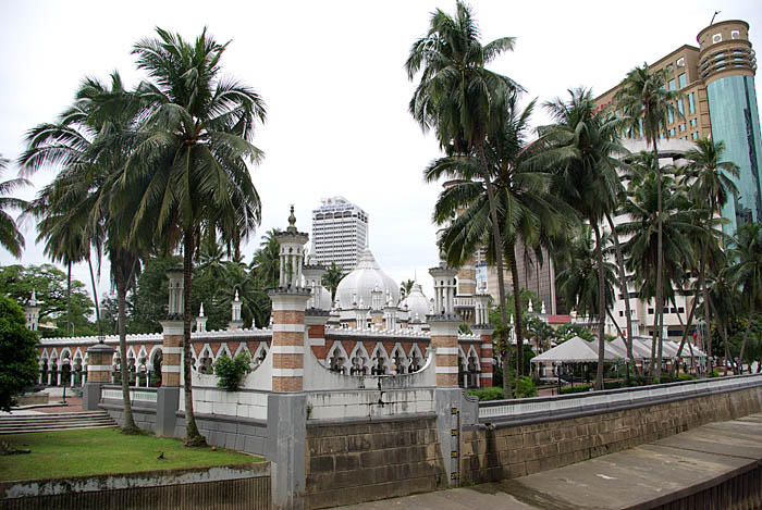 Kuala Lumpur - Masjid Jamek